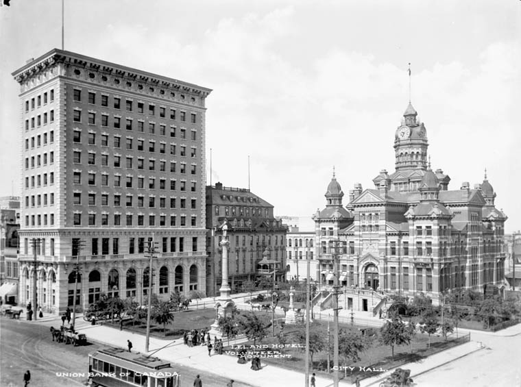 Union Bank of Canada, Leland Hotel, Volunteer Monument and City Hall, in Winnipeg, Manitoba. Circa 1900-1925.